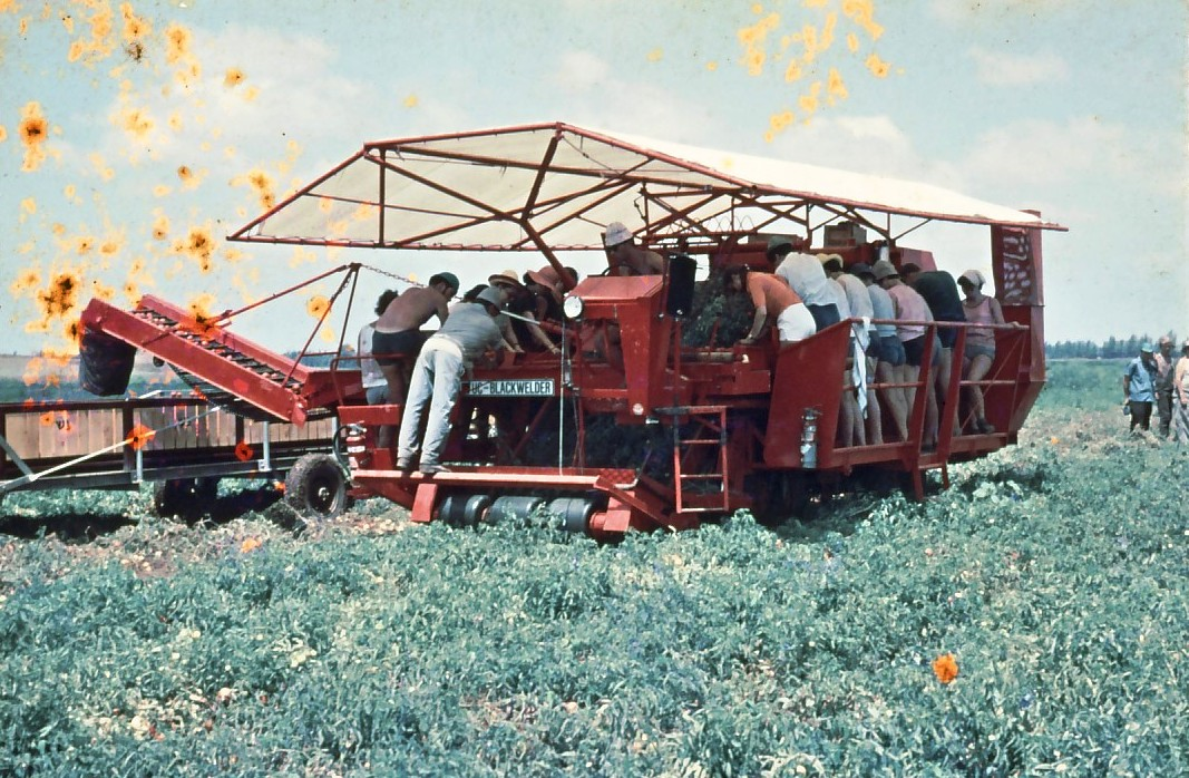 Gan-Shmuel - picking tomatoes in 1968, Agriculture in Israel